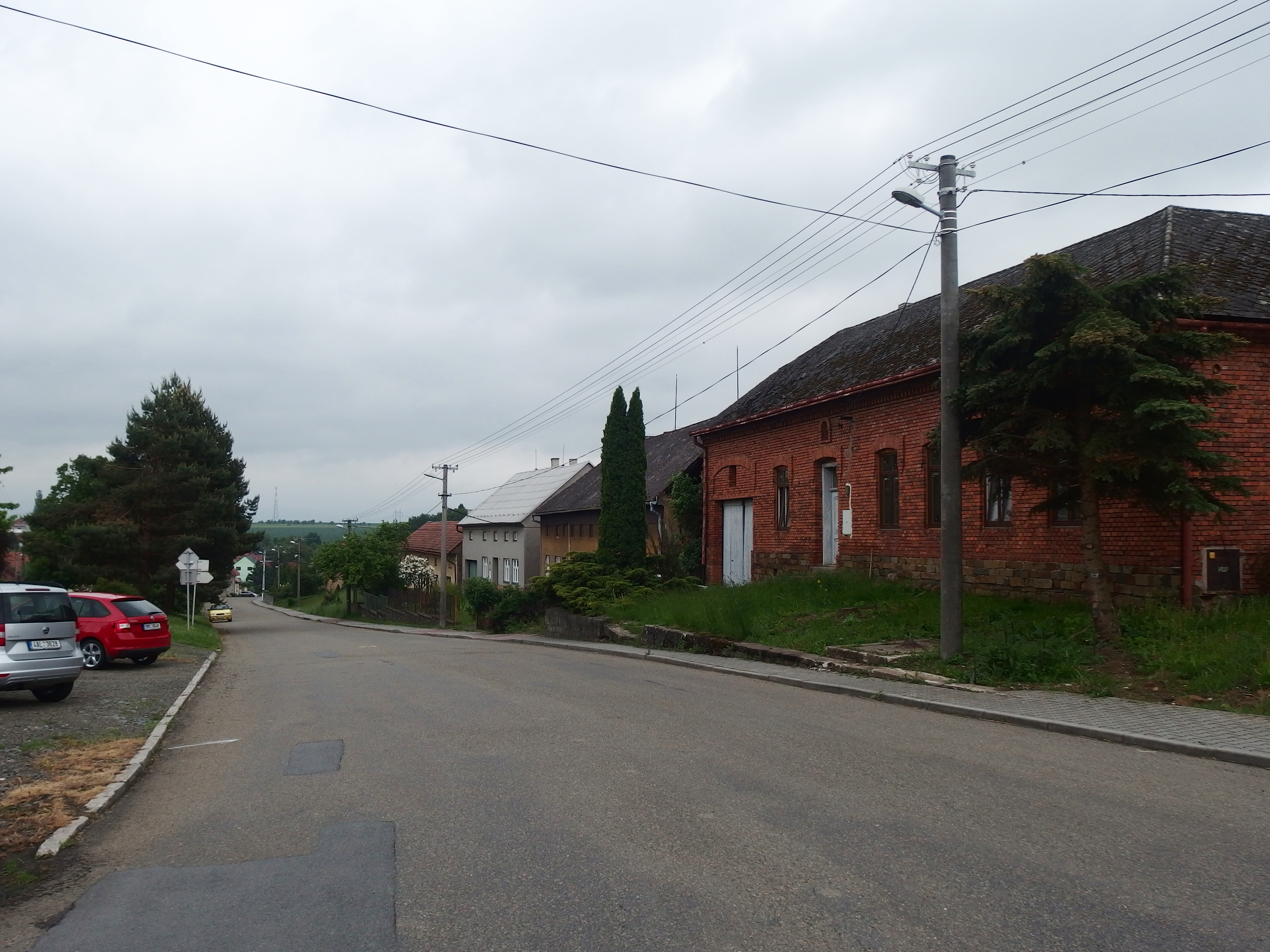 Lhota, Přerov District, Czech Republic.